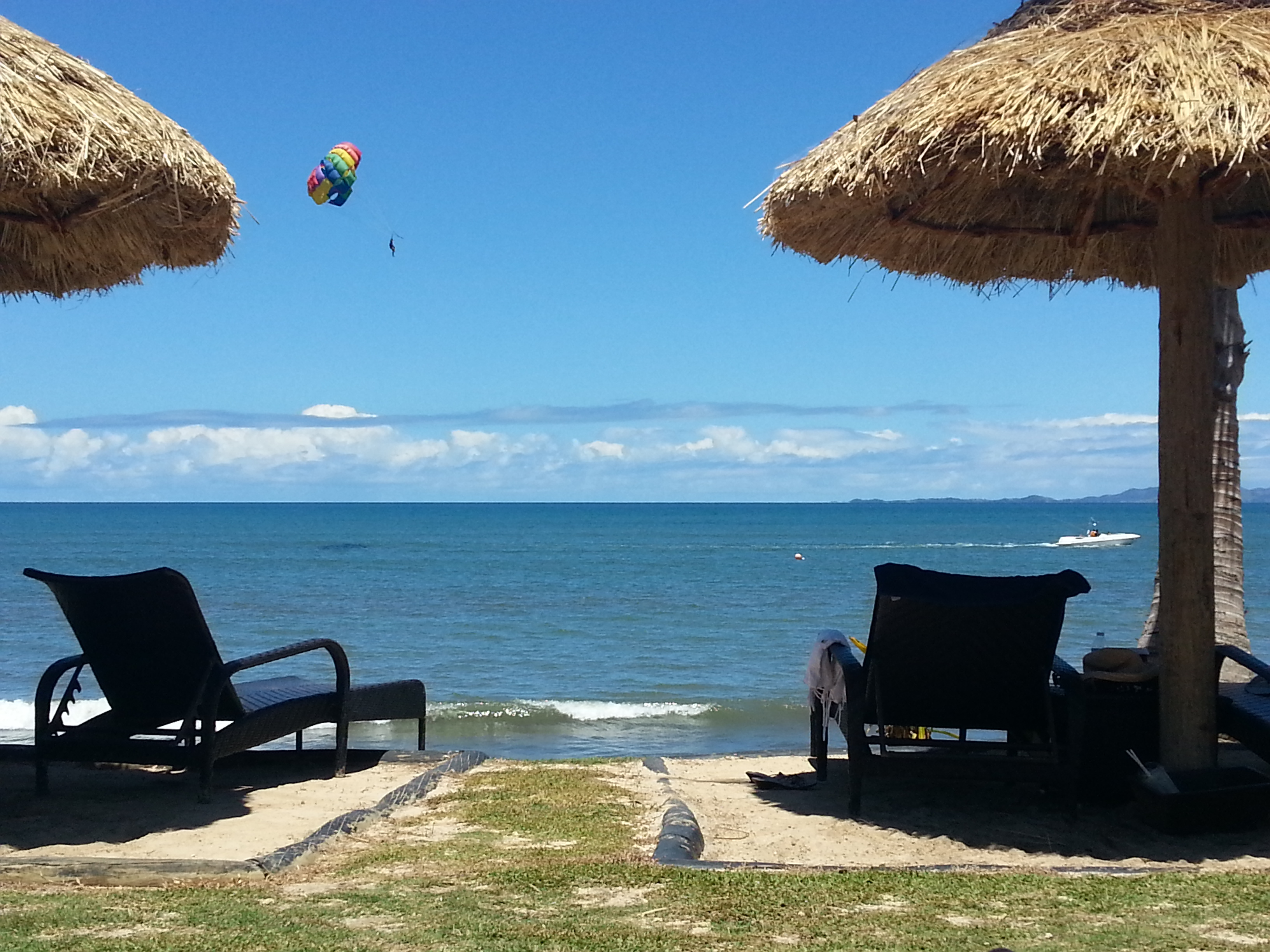 I took this photo on Denarau Island Fiji in February 2013.